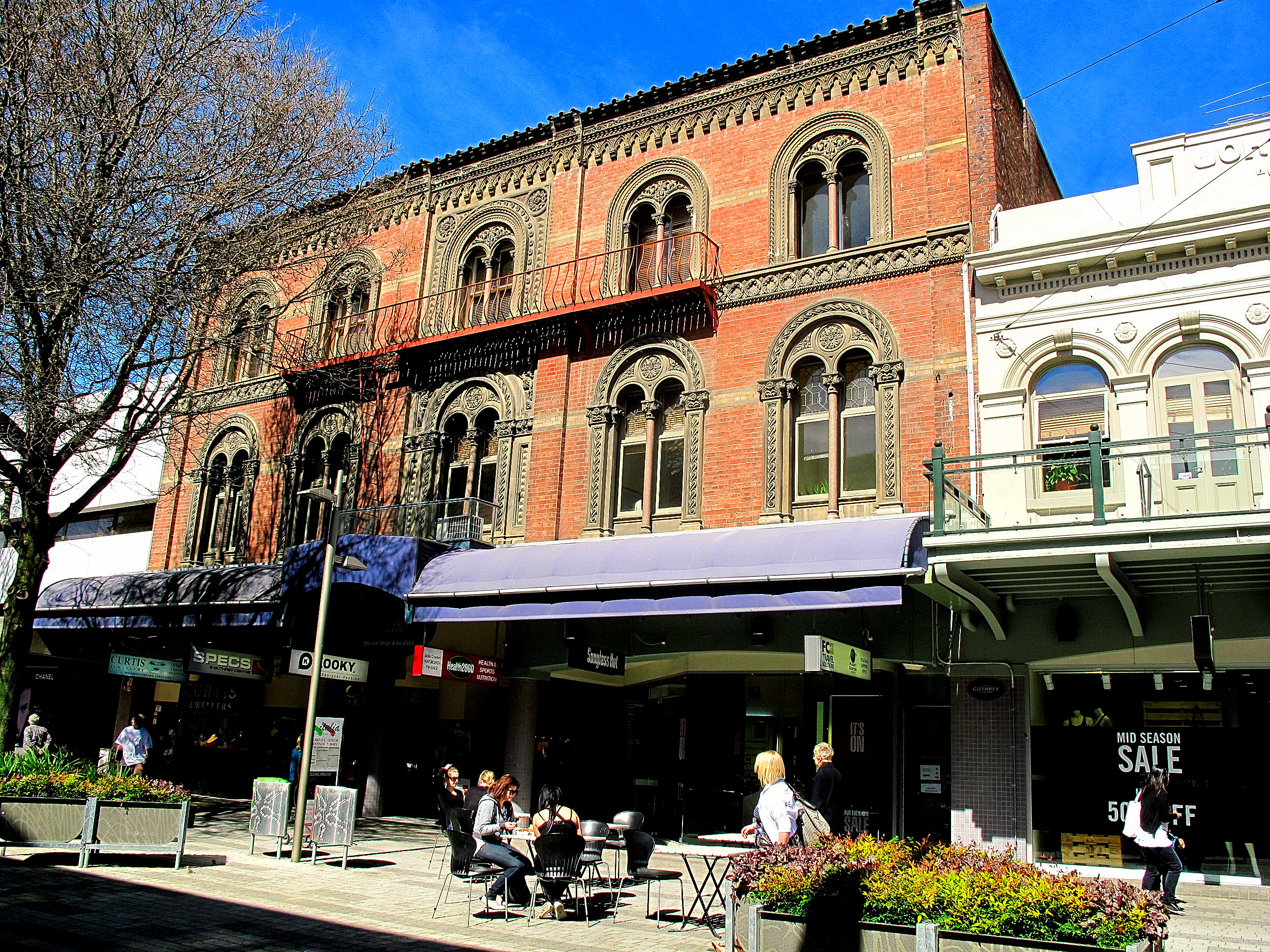 Cashel Street mall in Christchurch (Fri 24-9-2010).